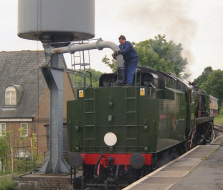 The tender of ex-Southern Railway locomotive 'Bodmin' (BR number 34016) is being filled with water at Alton station, ready for a special working to Salisbury.